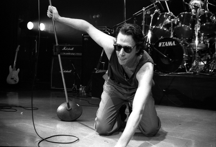 In the early 90s, new york punk legend Richard Hell visited Japan, live at the Club Chitta Kawasaki Japan